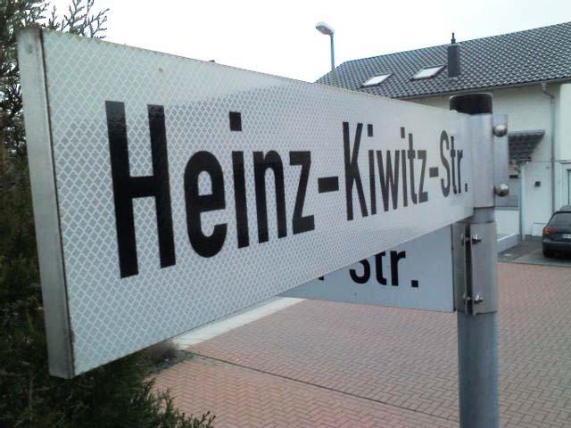 Close-up of street sign: Heinz-Kiwitz-Straße, Duisburg, Germany. Named for artist Heinz Kiwitz, a member of the German Resistance against Nazism. Kiwitz was a prisoner at Kemna concentration camp in Wuppertal, was released and later went to fight in the Spanish Civil War, where he apparently was killed in 1938.